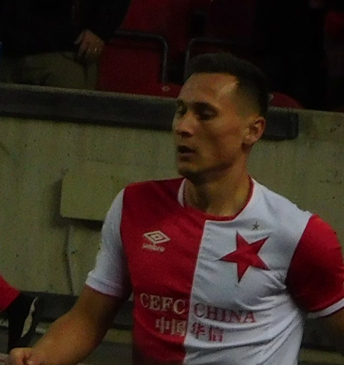 A photo of Jan Bořil, a Czech footballer born in 1991. Taken when in play on 17 April 2018 during the Czech FA Cup match between Slavia Prague and Mladá Boleslav.